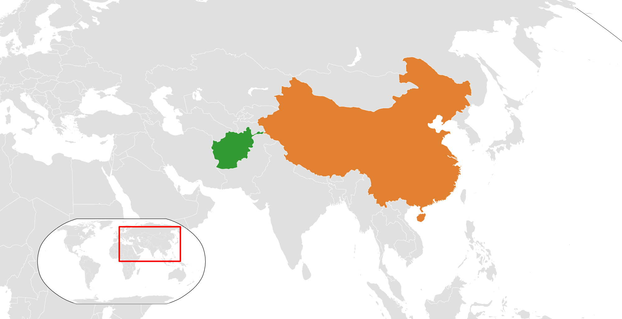 Map of the world indicating the location of Afghanistan and People's Republic of China.